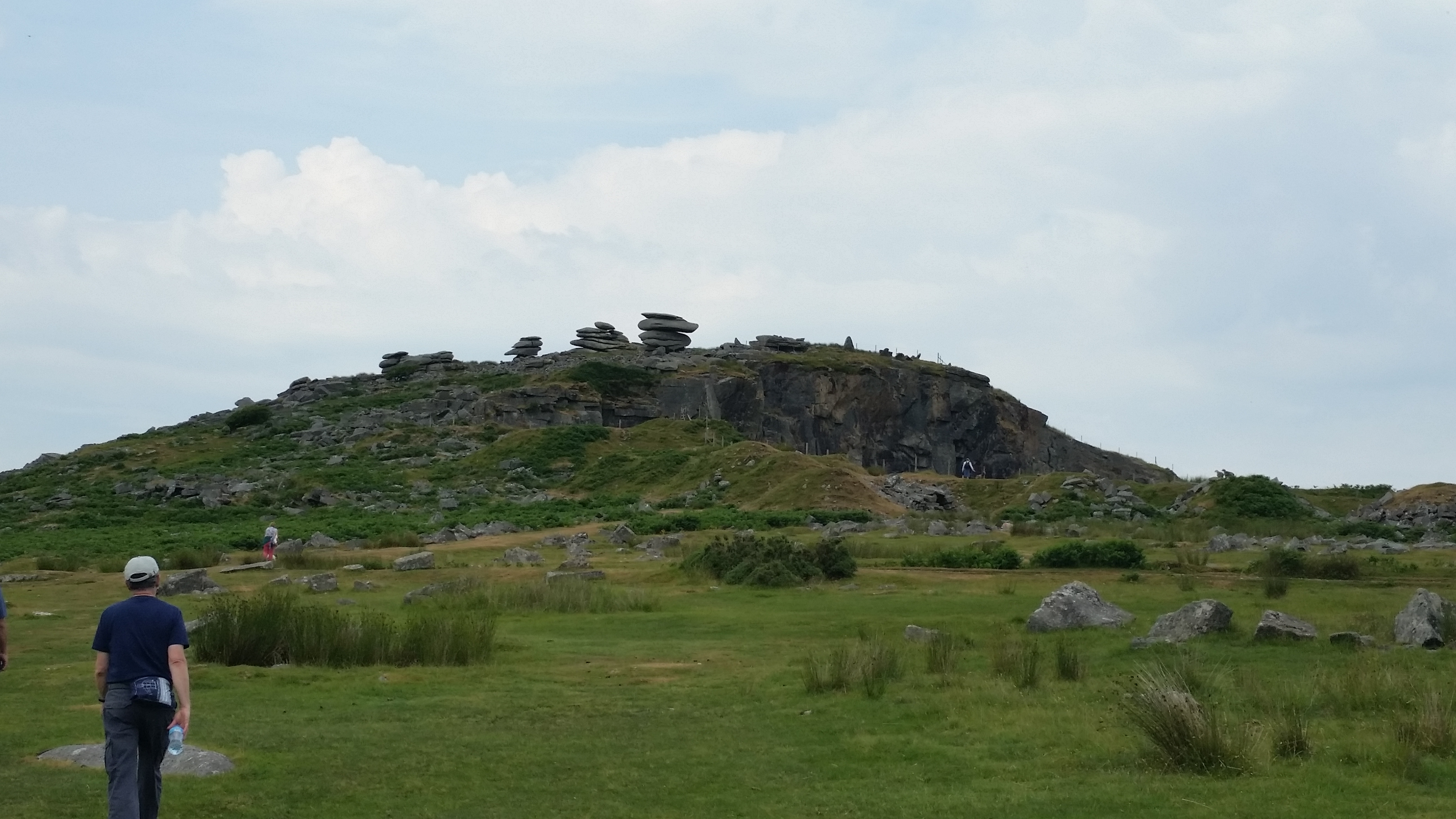 The stow's Hill with the cheesewring at the center of the picture